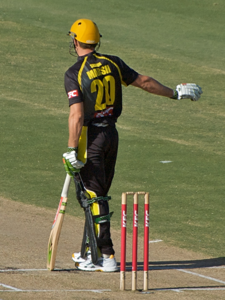 Shaun Marsh at KFC Twenty20 BigBash - WA v VIC, 10 January 2010, WACA Ground